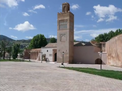 Museum of Muslim rites - Tlemcen - Algeria